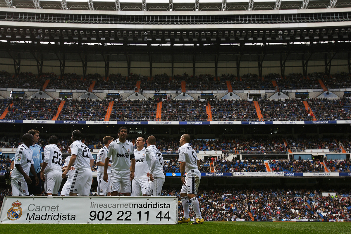 APRIL 12, 2009 - Football : Real Madrid team group line up before the La Liga match between Real Madrid and Valladolid at the Santiago Bernabeu stadium on April 12, 2009 in Madrid, Spain. (Photo by Tsutomu Takasu)